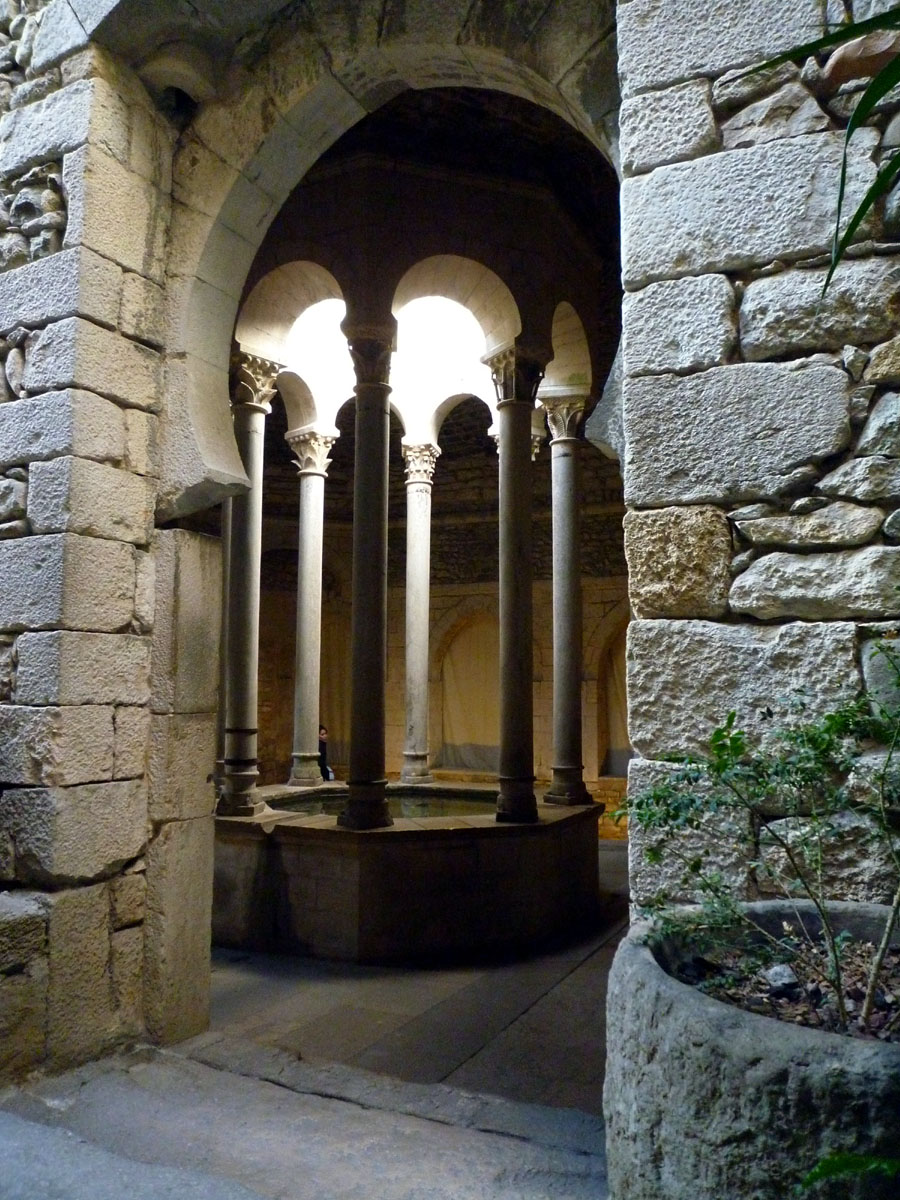 Arab baths in Girona, Catalonia, Spain.